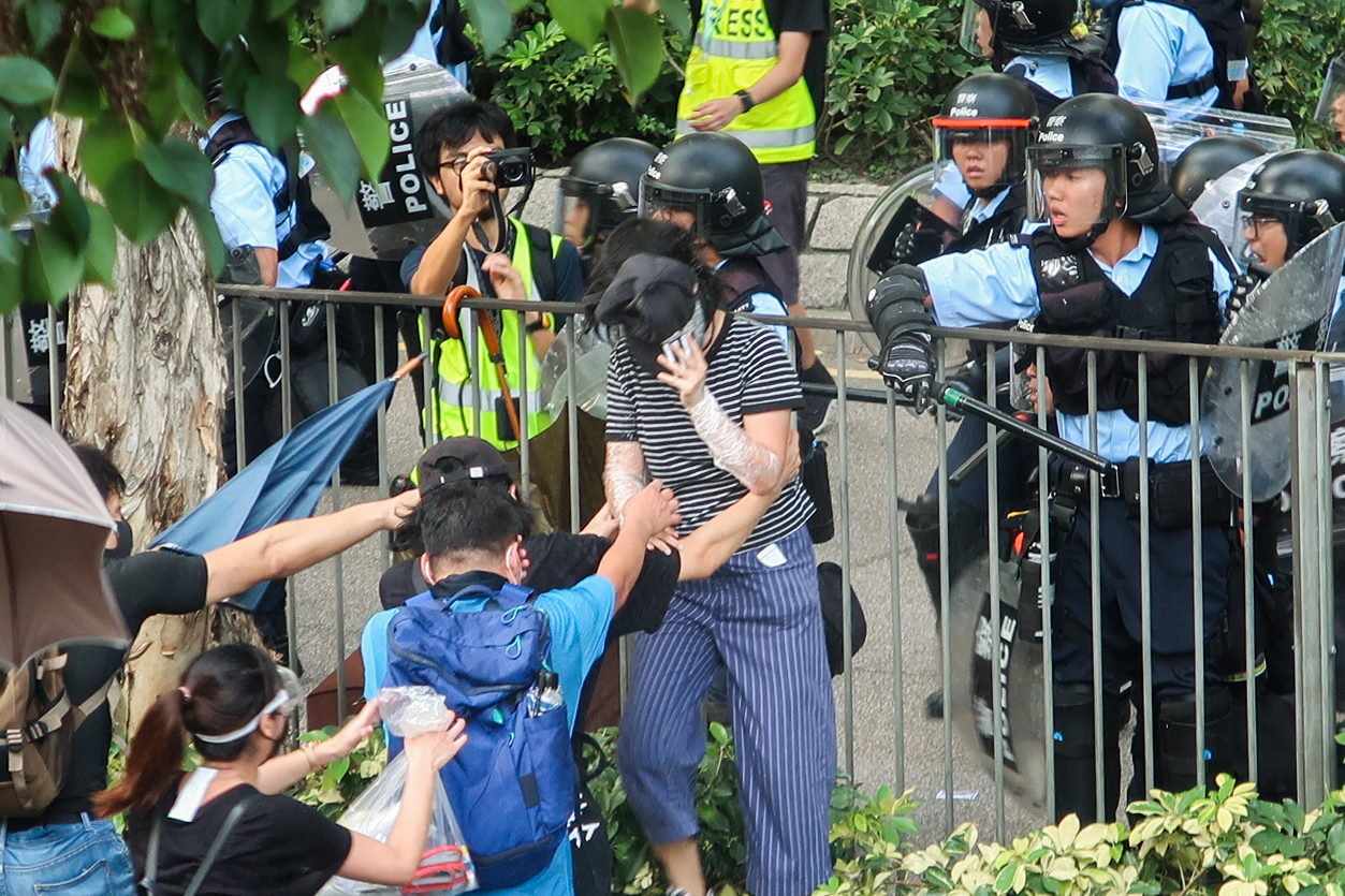 protesters attack by police